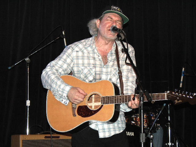 Hardly Strictly Bluegrass Festival 2005. Golden Gate Park - San Francisco, CA.